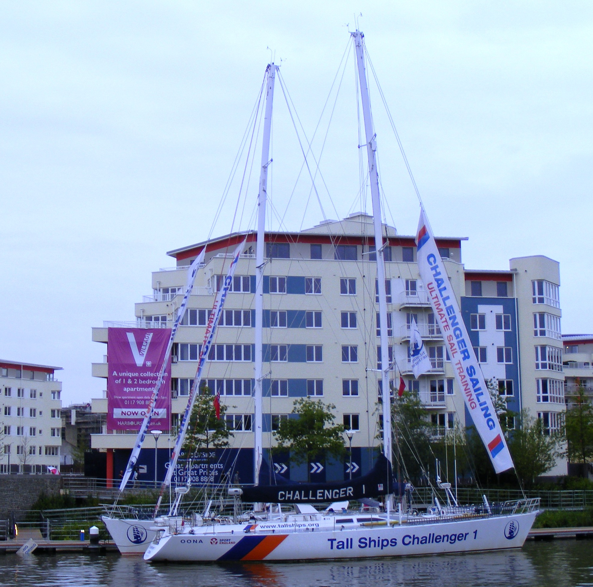 Tall Ships Challenger 1 - Oona at the Bristol Harbour Festival